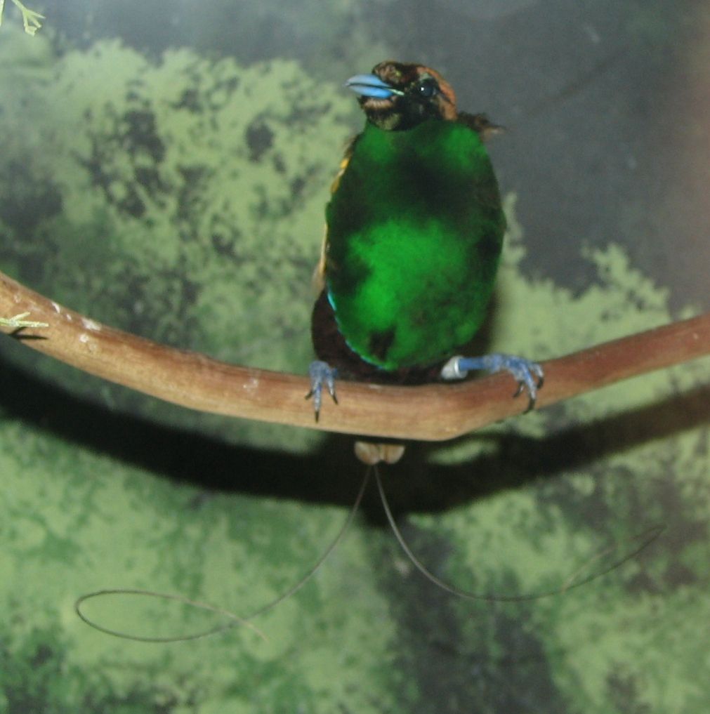 Bird of Paradise - Cicinnurus magnificus